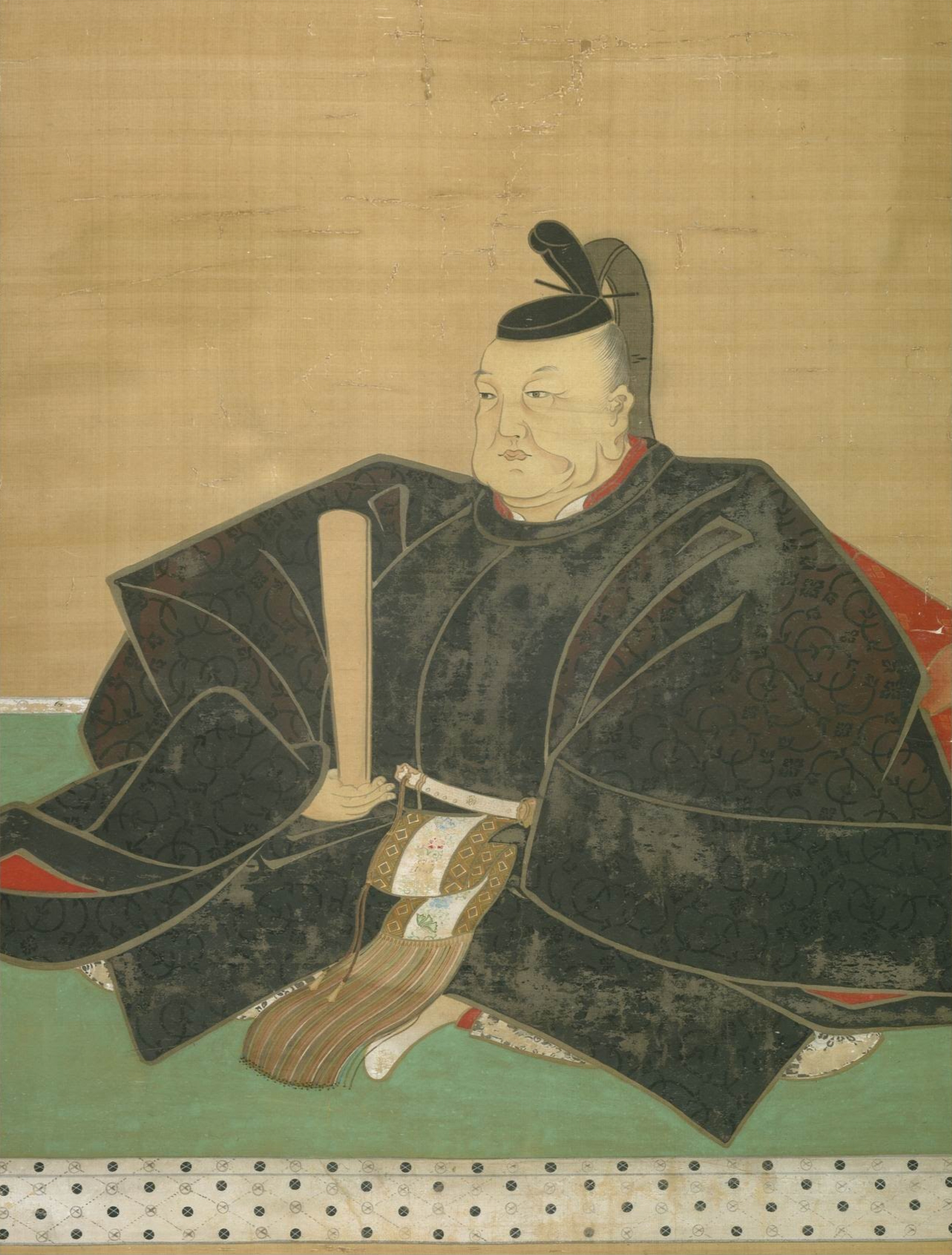 portrait of Ikeda Mitsunaka(the first feudal lord of Tottori clan)